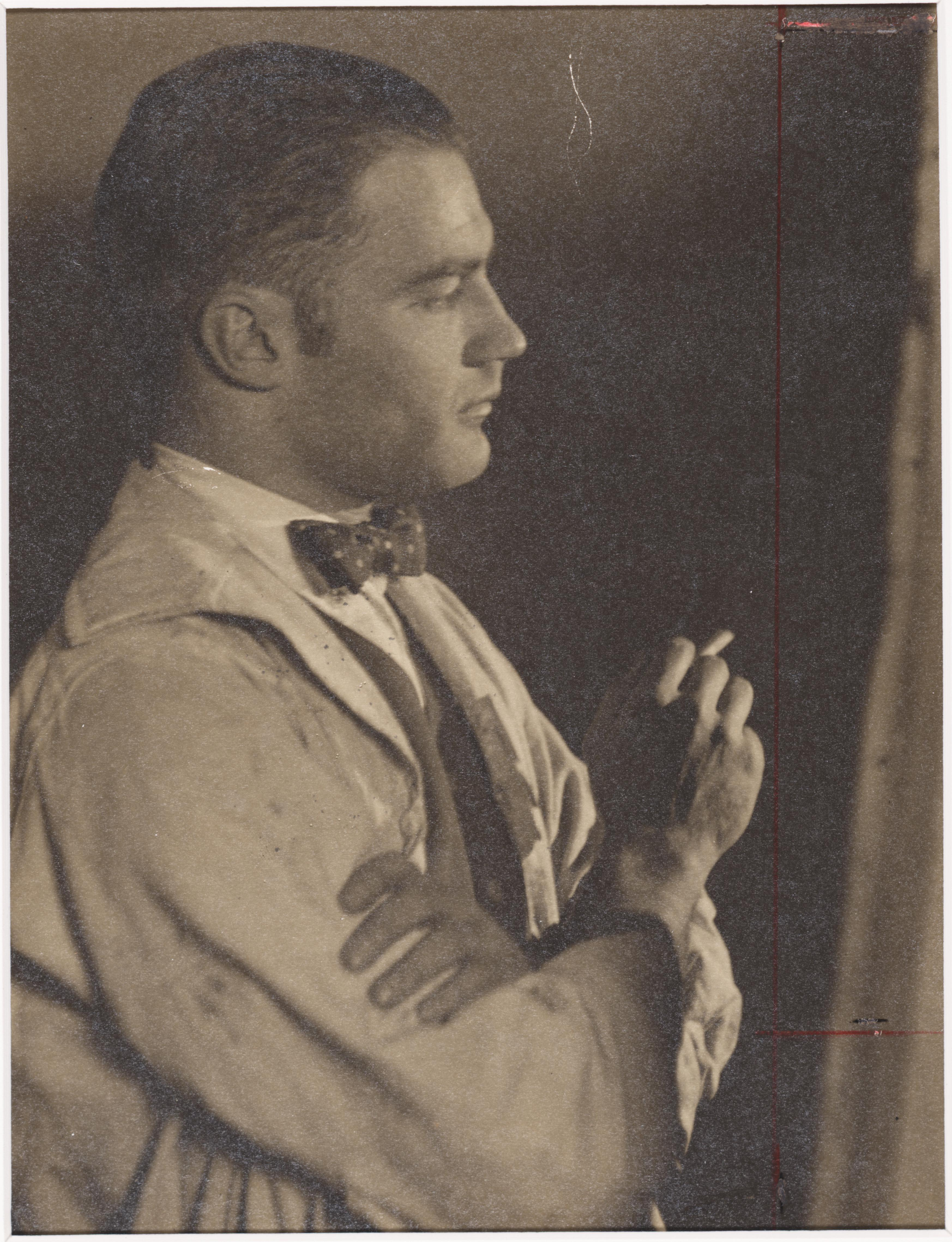 Description: Photo shows painter and etcher Henry Ernest Schnakenberg, facing left. Published in: Archives of American Art Journal v. 3, no. 2, p. 7. Schnakenberg, H. E. (Henry Ernest), 1892-1970 Creator/Photographer: Paul Outerbridge Medium: Gelatin silver print Dimensions: 26 cm x 20 cm Date: 1923 Persistent URL: Repository: Archives of American Art Collection: Forbes Watson Papers, 1900-1950 Accession number: aaa_watsforb_8911